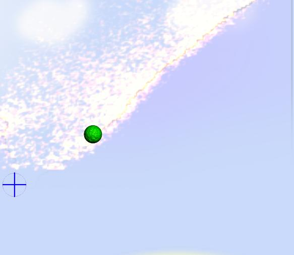 particles system